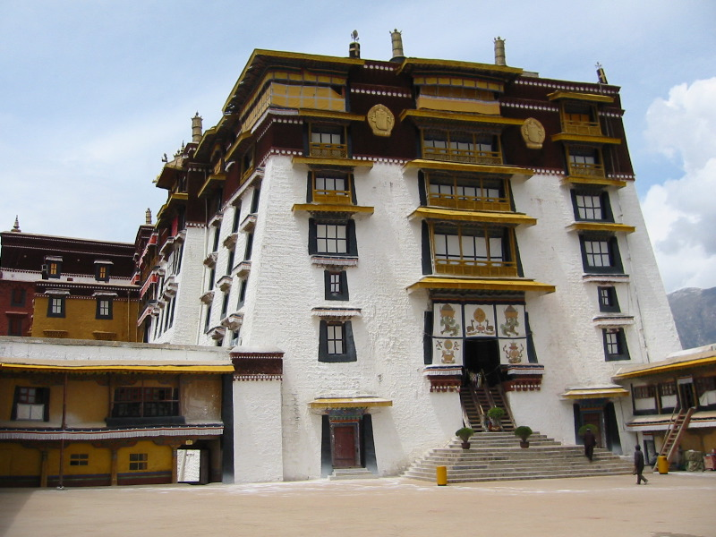 The White Palace of Potala in Lhasa.